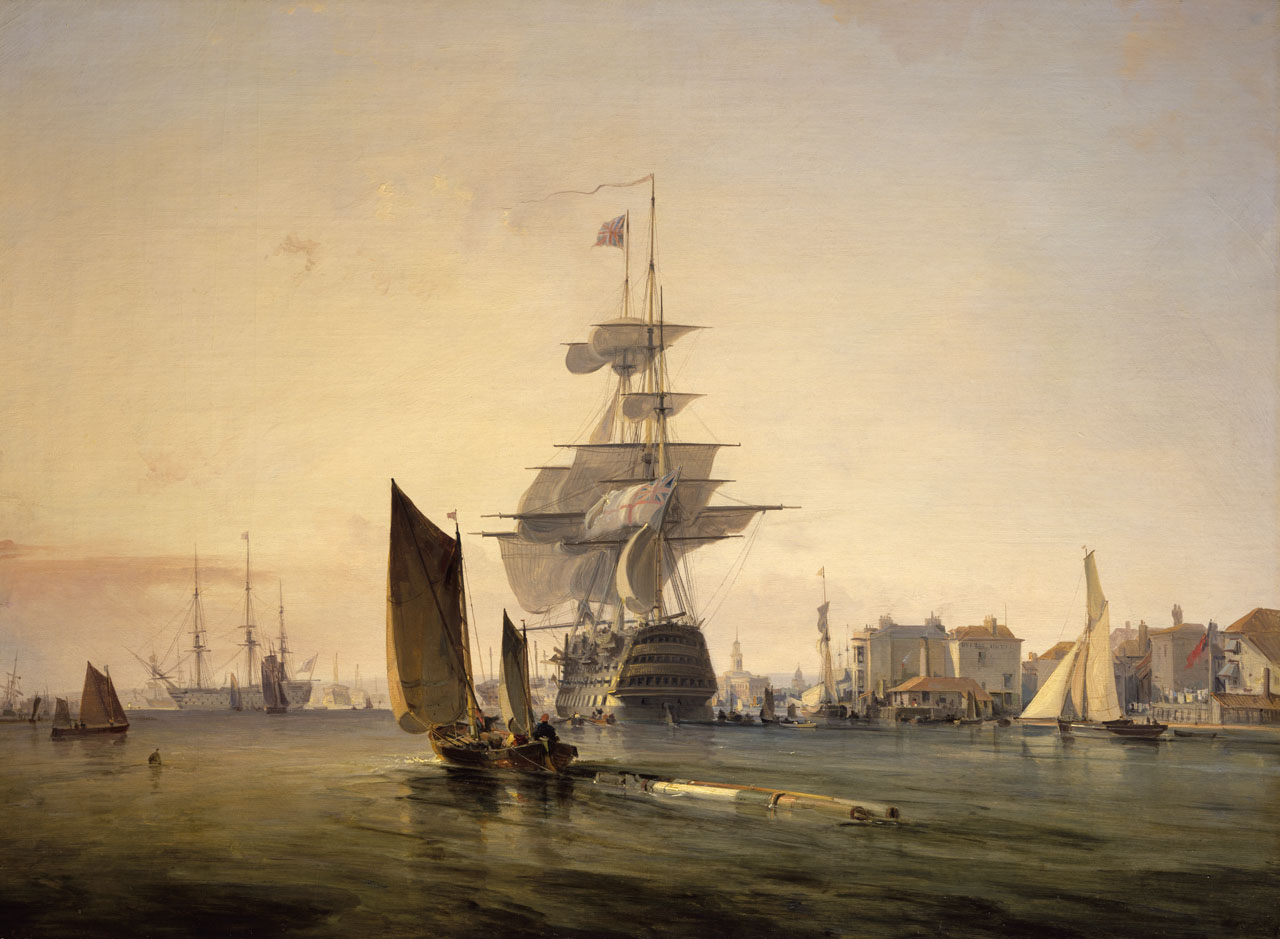 HMS Britannia entering Portsmouth. The 'Britannia', 120 guns, is shown here entering Portsmouth on 4 February 1835, under the command of Captain Peter Rainier, after spending five-and-a-half years in the Mediterranean. The buildings of Portsmouth Point can be seen on the right. Various traditional boats are visible, including a ketch-rigged craft in the foreground which is towing a mast and another spar. The sun is setting in this picture which has been signed by the artist and is dated 1835. Chambers, the son of a poor mariner in Whitby, Yorkshire, followed his father to sea at the age of ten. After several years, he became apprenticed to a house and ship painter where his skill at lettering and marking whale-boats attracted attention. He was greatly admired for the details of his marine paintings, particularly those showing details of the crew performing naval tasks. Following his arrival in London, Chambers initially copied history paintings and then received many new commissions, including several from William IV.